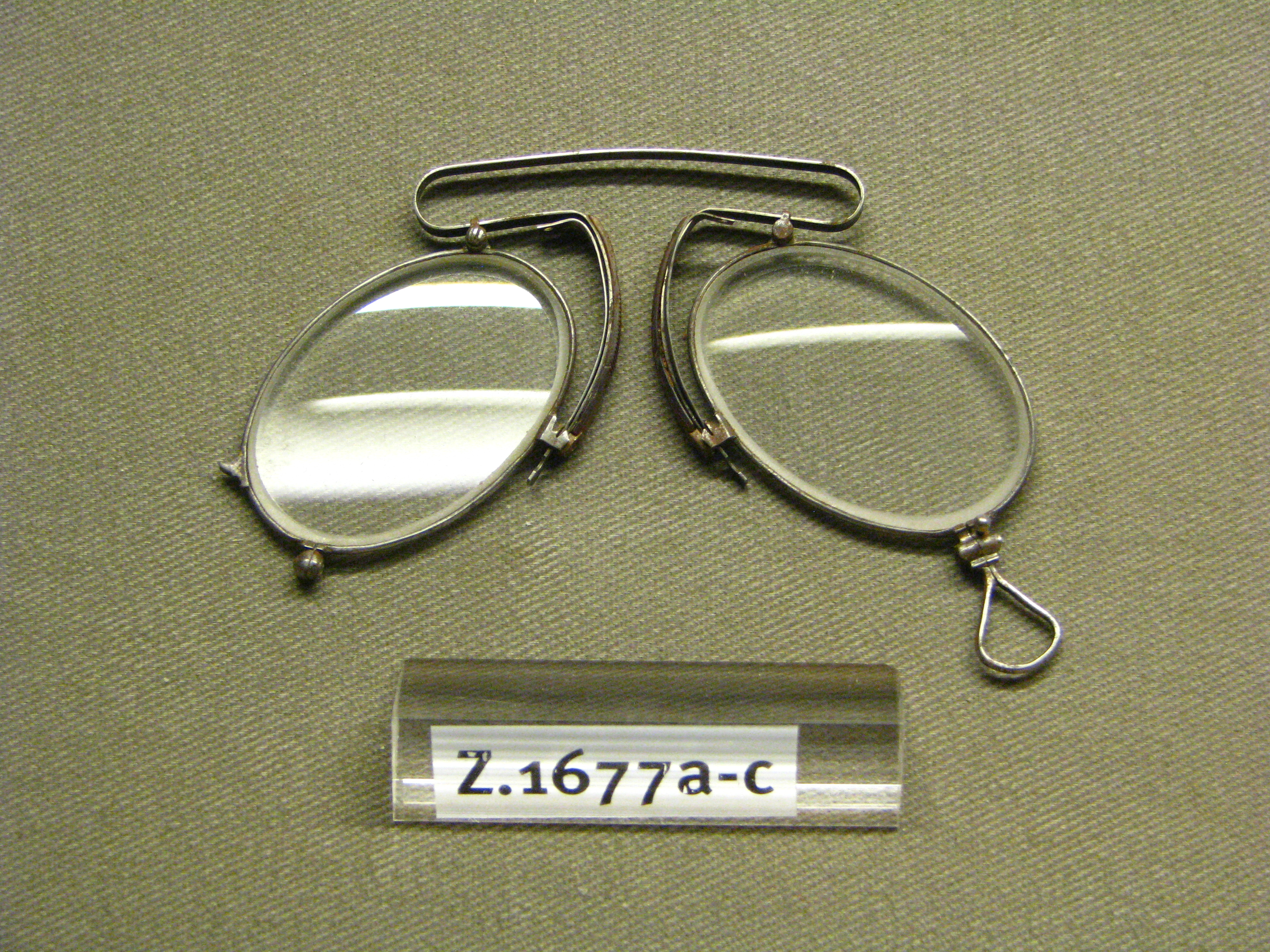 Pince-nez and case, ca. 1870. Steel, glass; wood. Case: 1 3/8 x 5 3/8 x 2 3/8 in. ( 3.5 x 13.7 x 6 cm ) pince-nez: 1/8 x 3 1/4 x 2 1/2 in. ( 0.3 x 8.3 x 6.4 cm ). New-York Historical Society, Gift of Mrs. A. Oakey Hall, Z.1677a-c. Wikipedia Loves Art at the New-York Historical Society This photo of item # [1] at the New-York Historical Society was contributed under the team name "the_adverse_possessors" as part of the Wikipedia Loves Art project in February 2009. New-York Historical Society The original photograph on Flickr was taken by _cck_—please add a comment to the original Flickr page whenever a use has been made on Wikipedia or another project. Project galleries on Flickr: this institution, this team